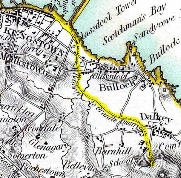 1837 map: The environs of Dublin. Drawn & engraved by B.R. Davies, 16 George Street, Euston Square. Published by the Society for the Diffusion of Useful Knowledge. By Baldwin & Cradock, 47 Paternoster Row, 01/10/1837. (London: Chapman & Hall)